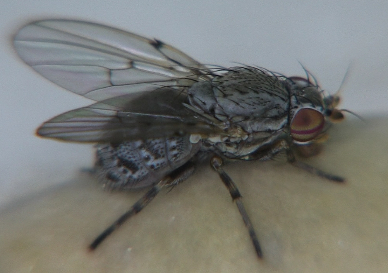 Odinia cf. boletina on Fomes fomentarius growing on a fallen down tree. Location: forest near Marburg, Hesse, Germany.